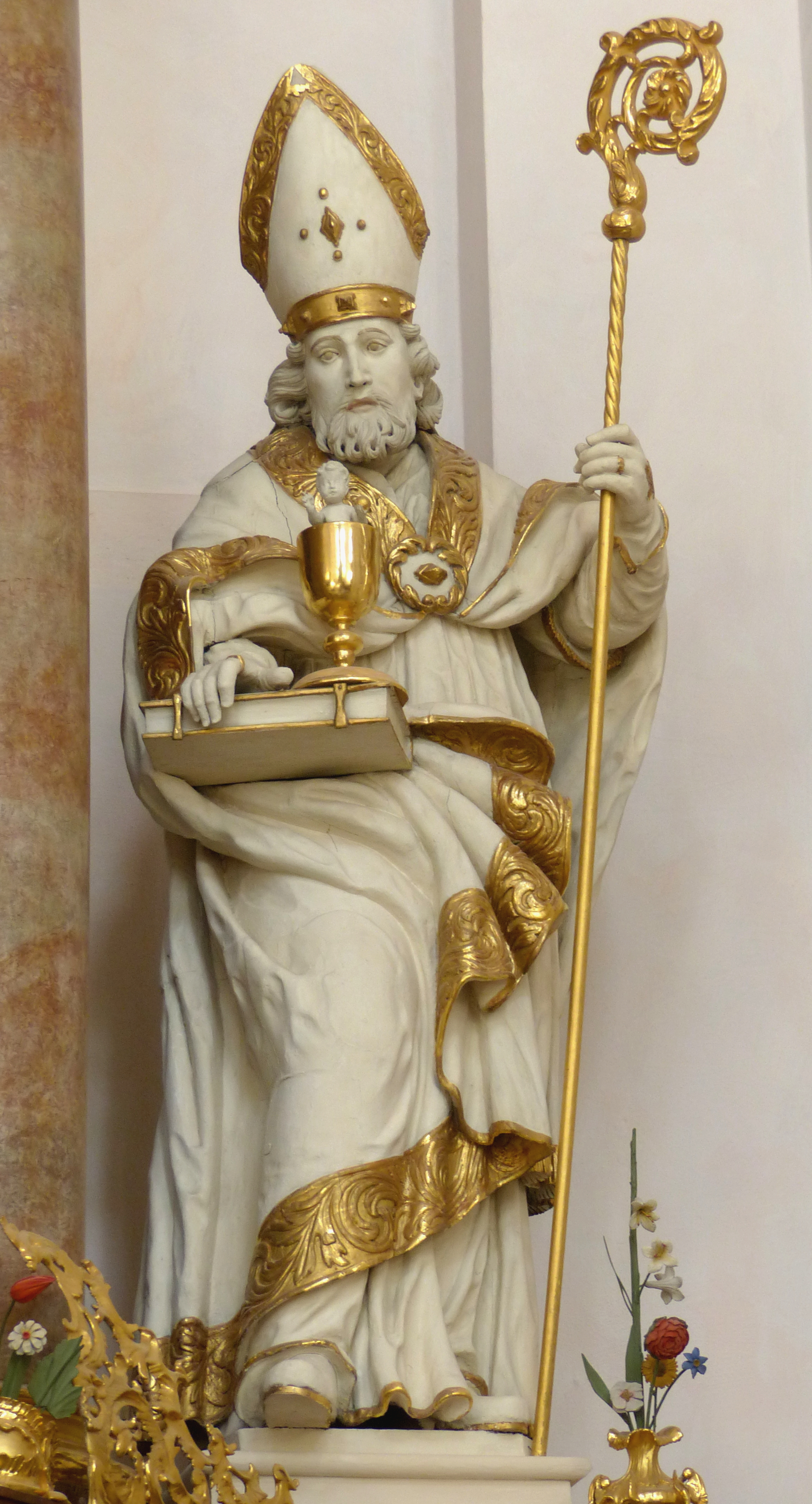 Waldsassen ( Upper Palatinate ). Abbey church: Altar of Saint Bernard of Clairvaux ( 1701 ) - Beatified Hermann abbot of Heisterbach by Martin Hirsch.This is a photograph of an architectural monument.